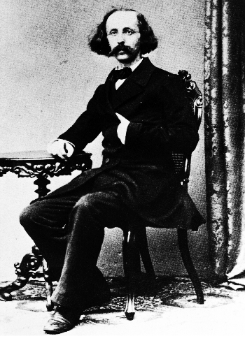 Carl Friedrichs (1831–1871), german archaeologist